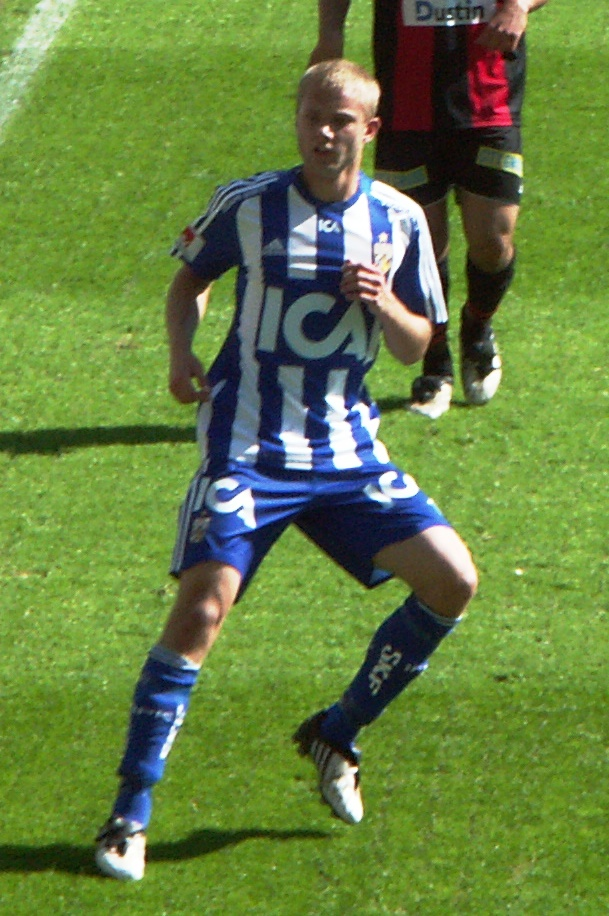 Swedish football player Robin Söder of IFK Göteborg.